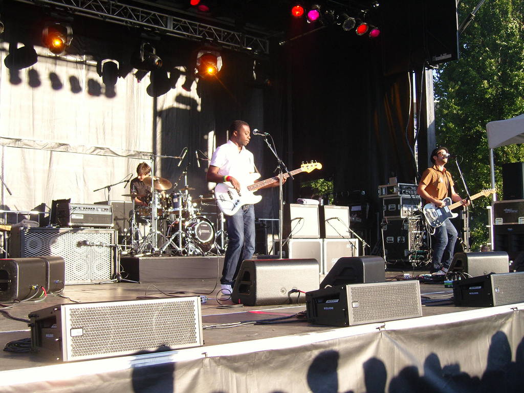 Bedouin Soundclash in concert